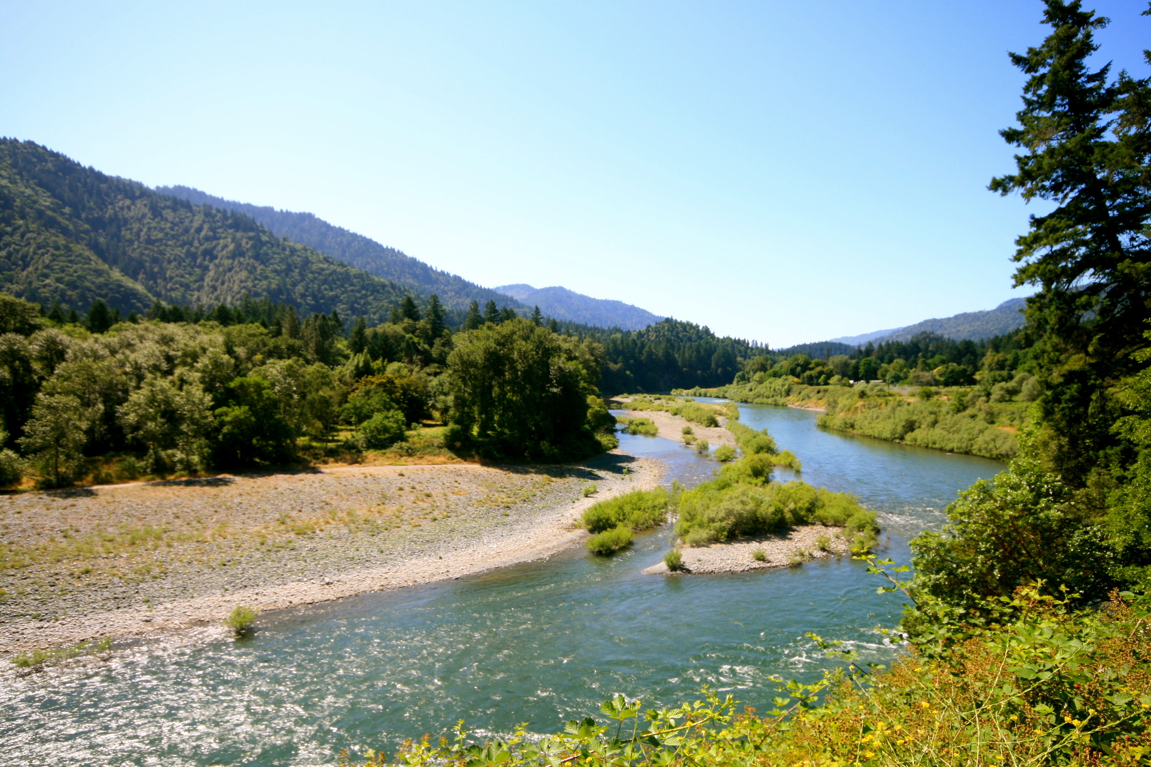 Bend in the Trinity....